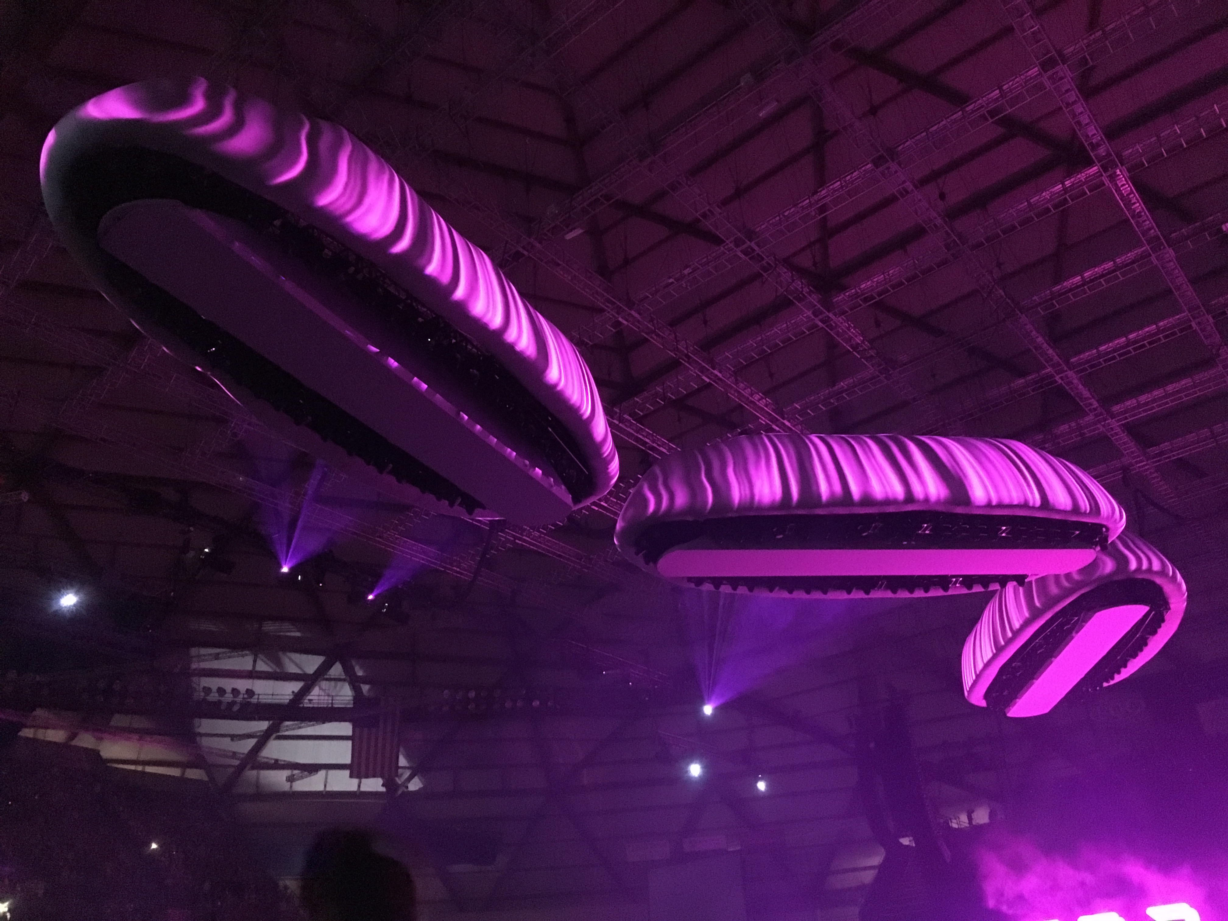 Lady Gaga Joanne Tour